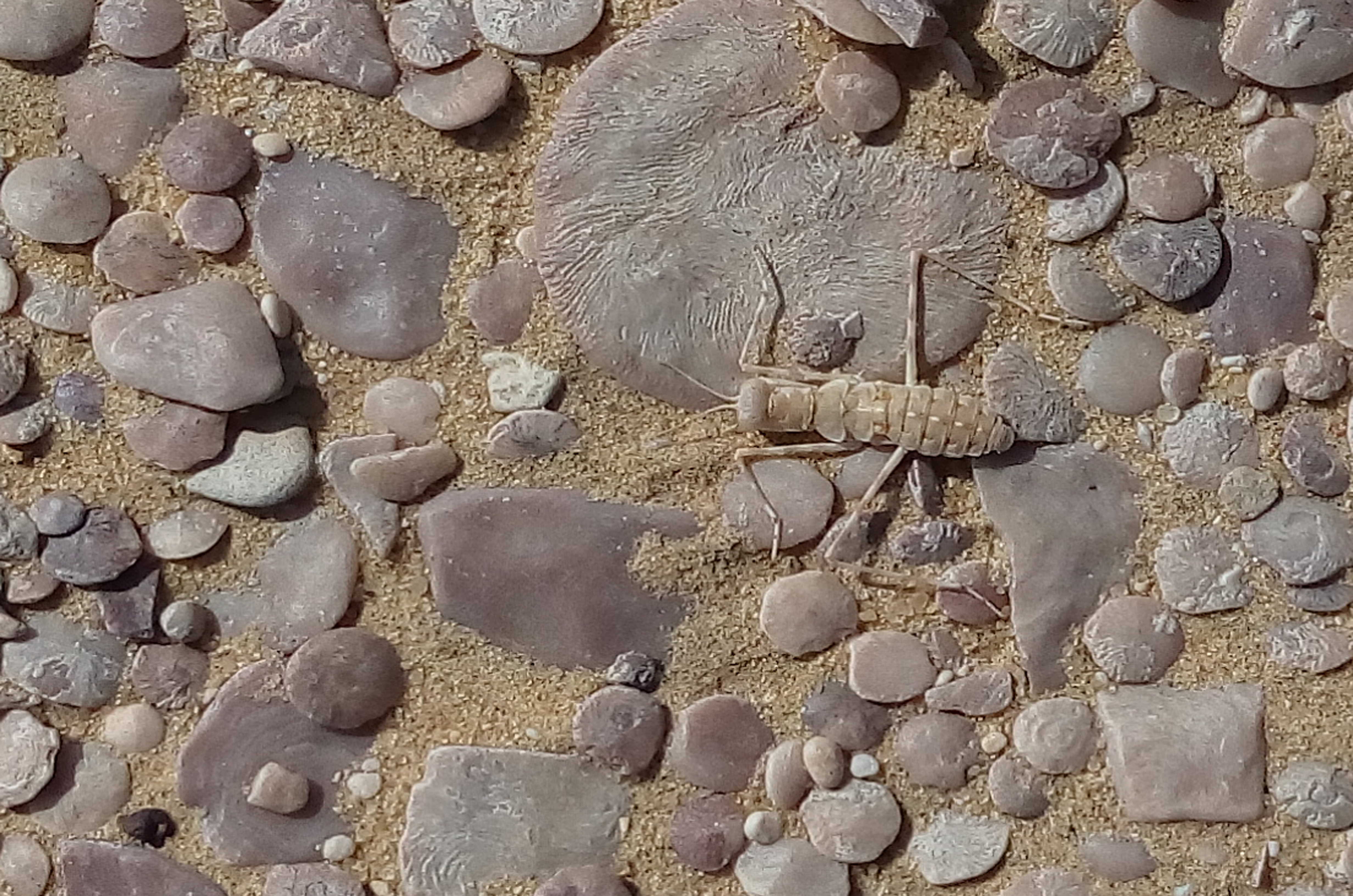 desert mantis